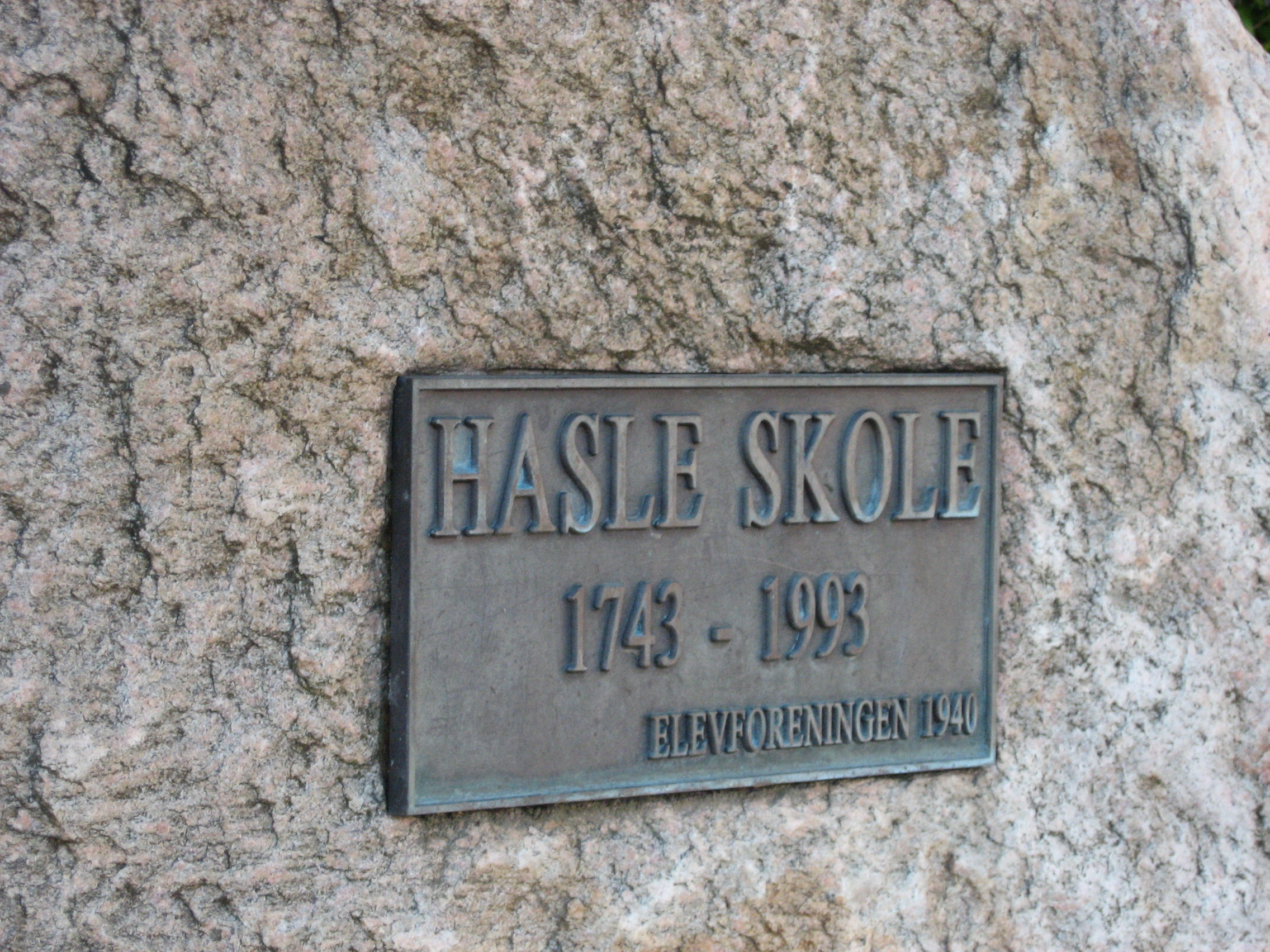 Detail of emorial stone in front of Hasle Skole in Hasle, Århus, Denmark, raised on December 4 1993 to celebrate the 250 anniversary of the school.